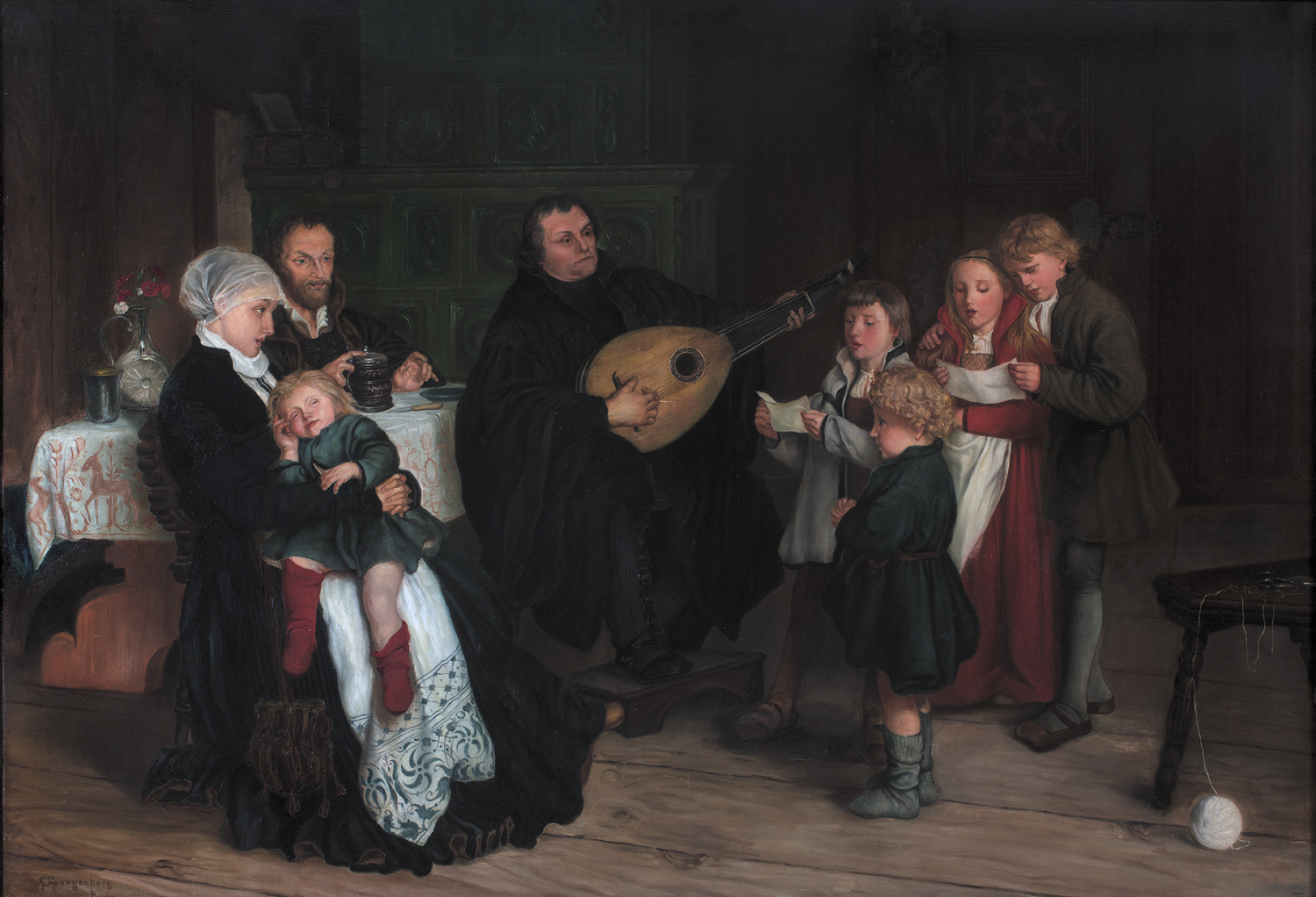 Luther in the circle of his family 1875 signed b.l.